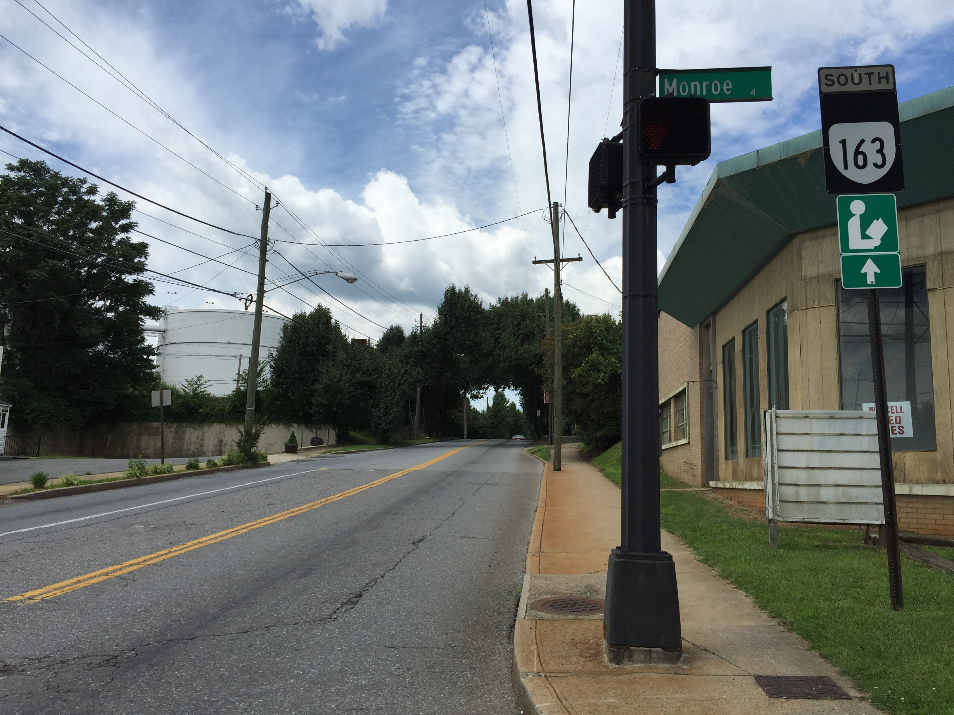 View south along Virginia State Route 163 (Fifth Street) at Monroe Street in Lynchburg, Virginia